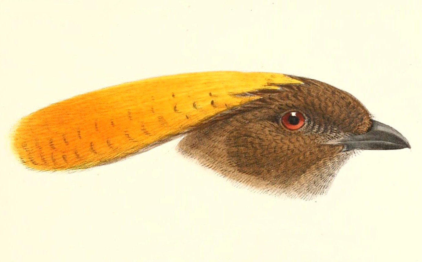 « Amblyornis inornata » = Amblyornis inornata (Vogelkop Bowerbird)